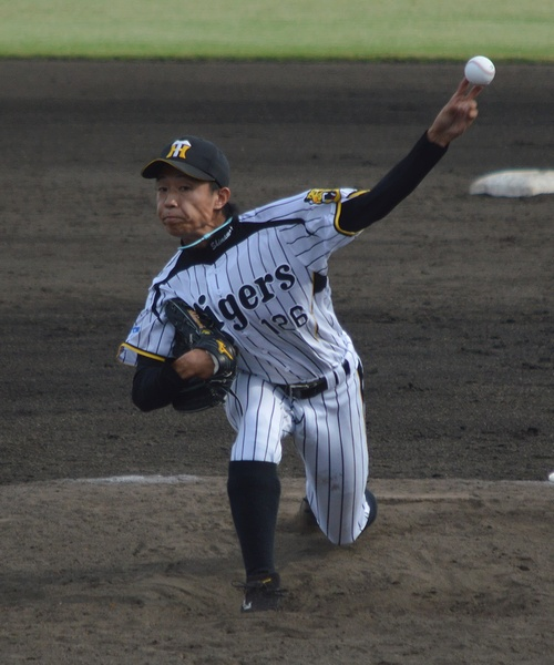 HT-Hiroya-Shimamoto20130605